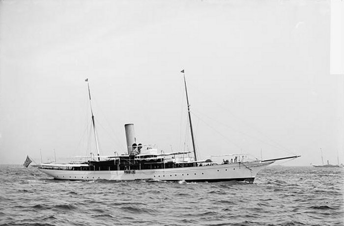 Surf, built in 1898 by Ramage and Ferguson, Leith, Scotland for E. D. Lambert of Berkshire, England